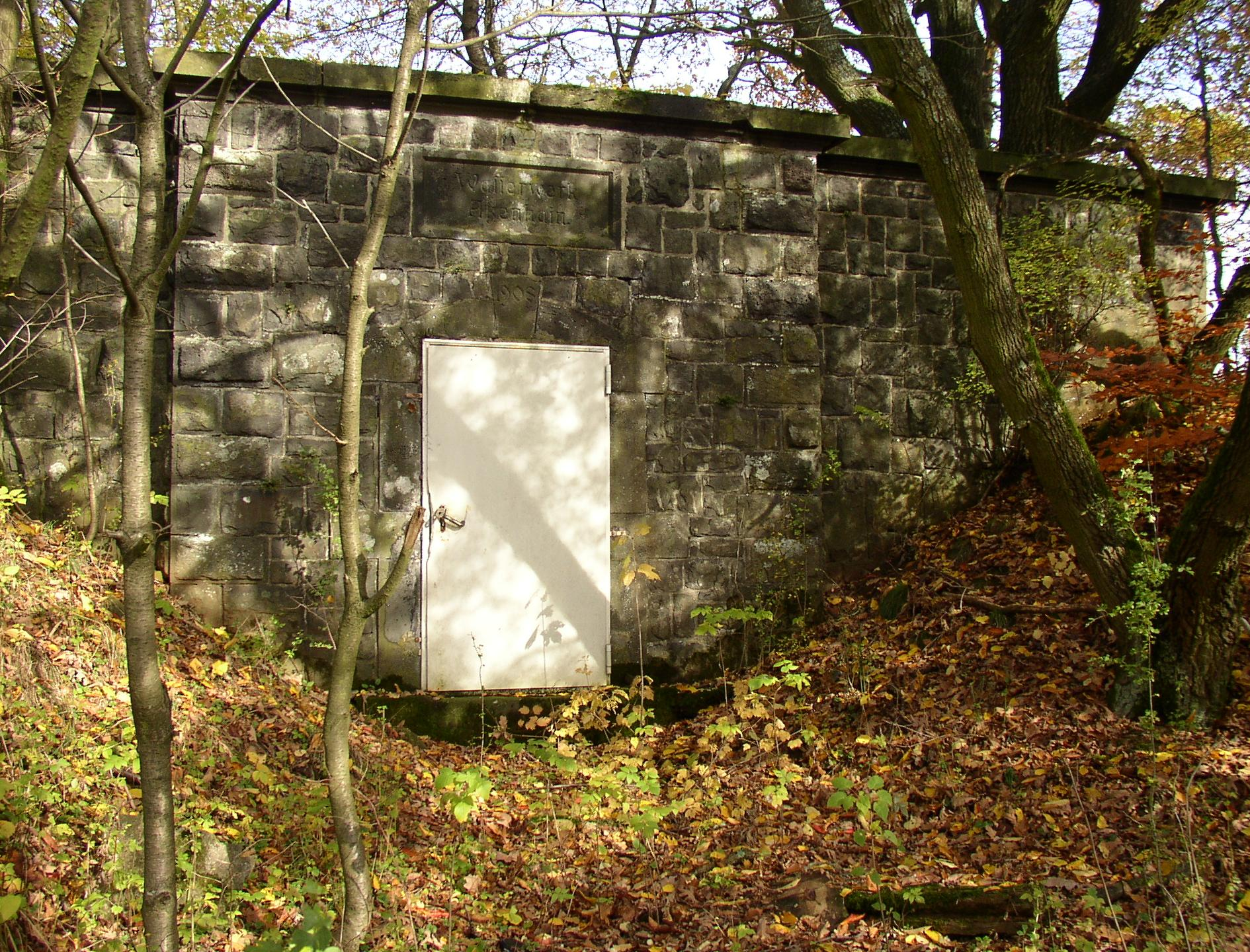 Former Waterworks in Mücke-Atzenhain in Hesse, Germany